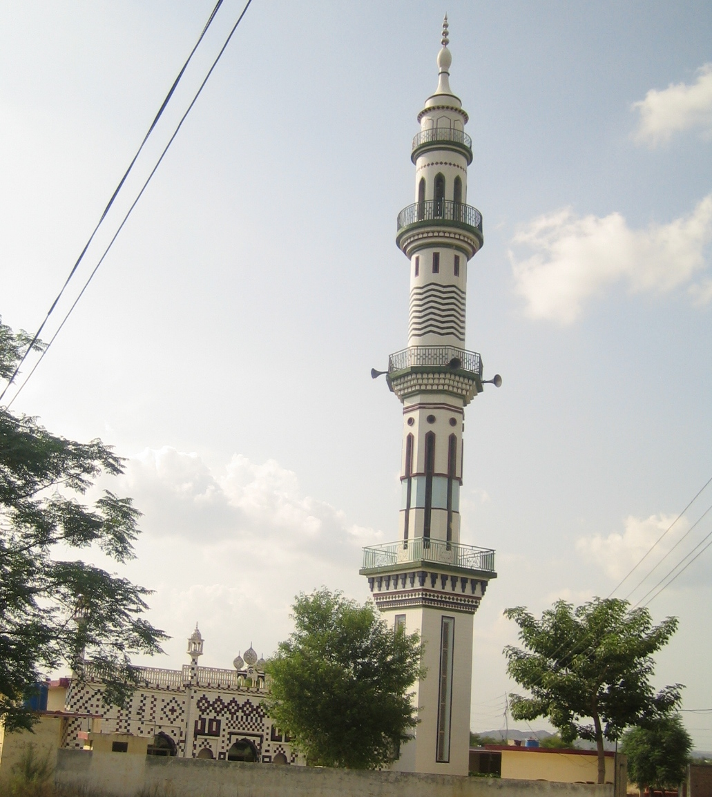 Kamagri Mosque in what Pakistan refers to as Azad Kashmir.